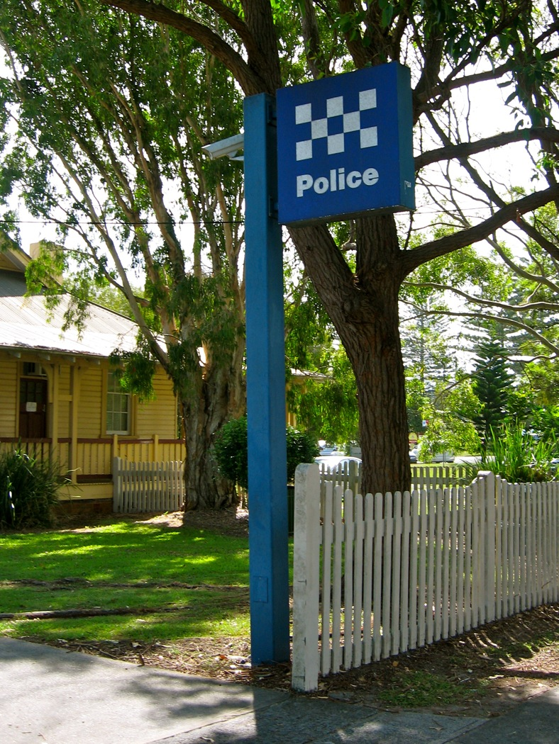 A New South Wales Police station standard.